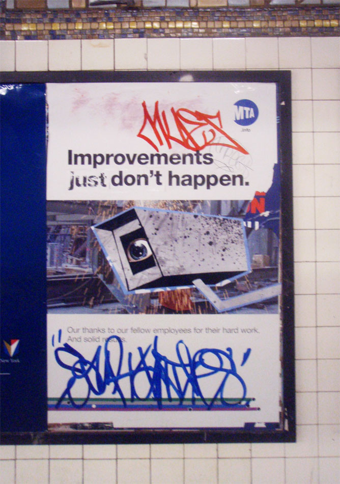 BIG B(r)OTHER by flickr user posterboynyc